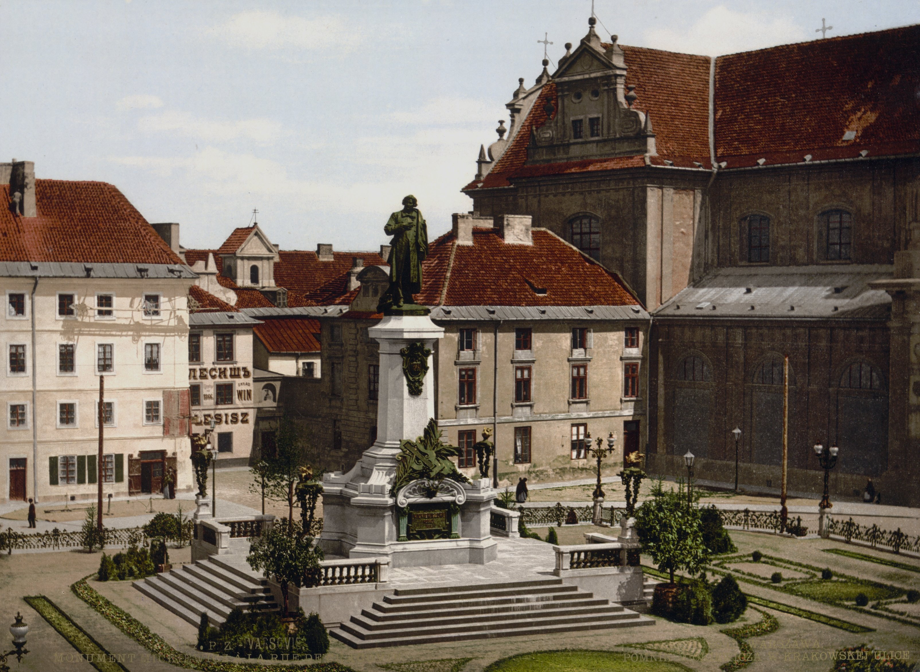 Warsaw Mickiewicz Monument about 1900